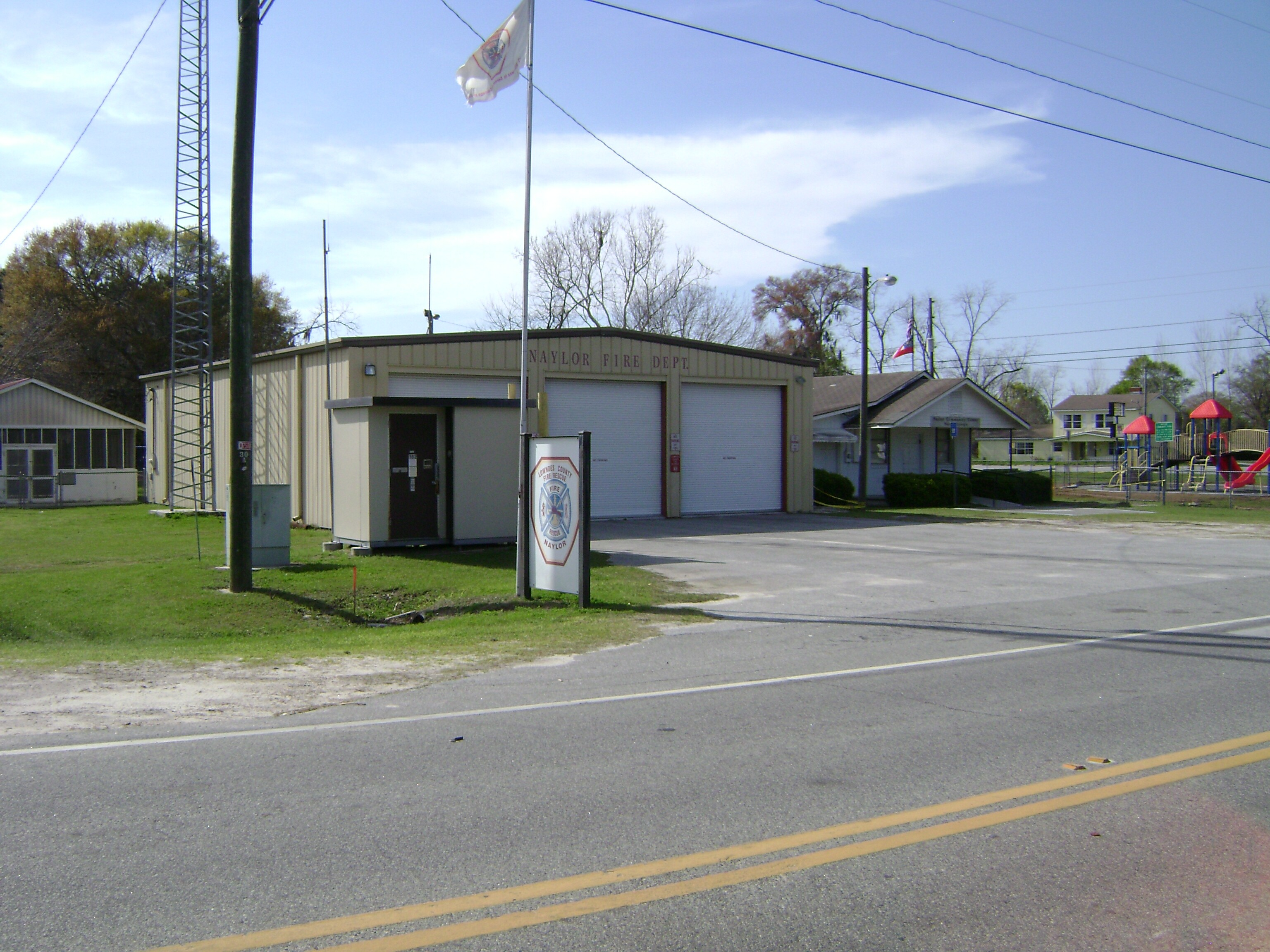 Naylor Fire Department in Naylor community, Lowndes County, Georgia. Building is located on GA-135, next to the railroad tracks between US-84 and Savannah Rd. (or Savannah Ave.)